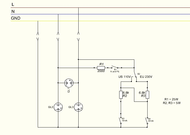 One of possible wiring diagram of AC socket tester. WARNING: This circuit is unworkable; placing the 110/230 switch in the 110v position, and then pressing the 30mA test button causes a HAZARDOUS direct line-to-ground short circuit!